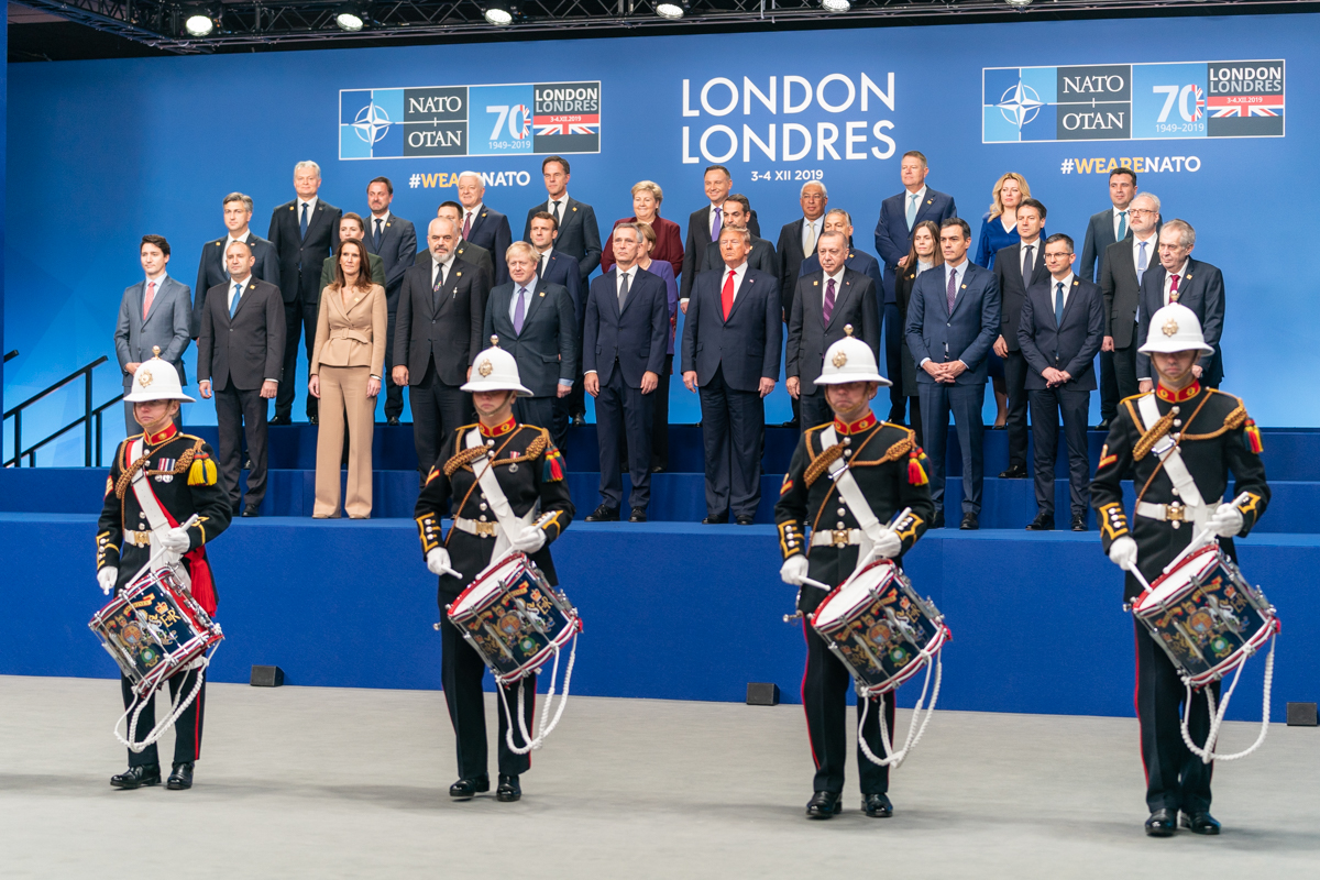 President Donald J. Trump participates in the North Atlantic Treaty Organization (NATO) family photo with fellow NATO members Wednesday, Dec. 4, 2019, at the 70thanniversary of NATO in Watford, Hertfordshire outside London. (Official White House Photo by Shealah Craighead)